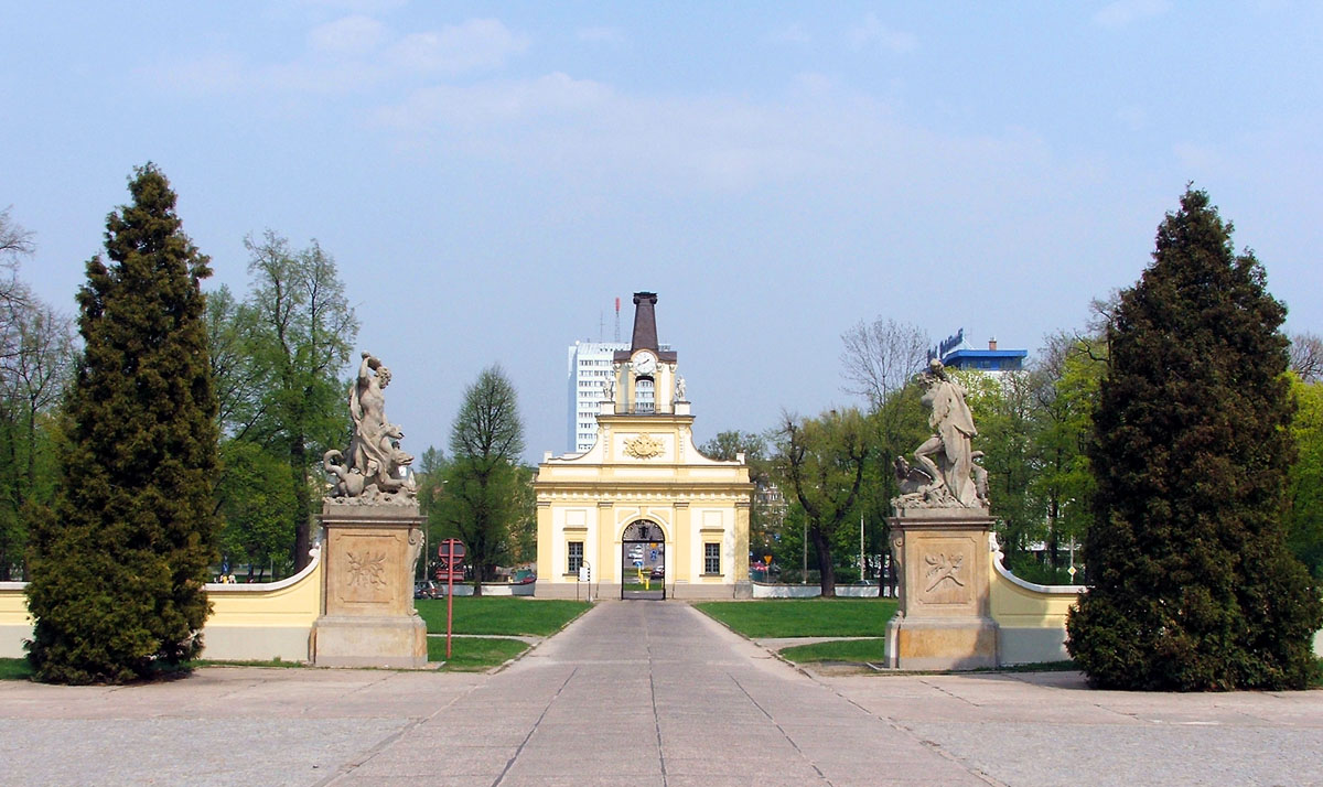 Main gate as seen from the courtyard of the Branicki Palace in Białystok.